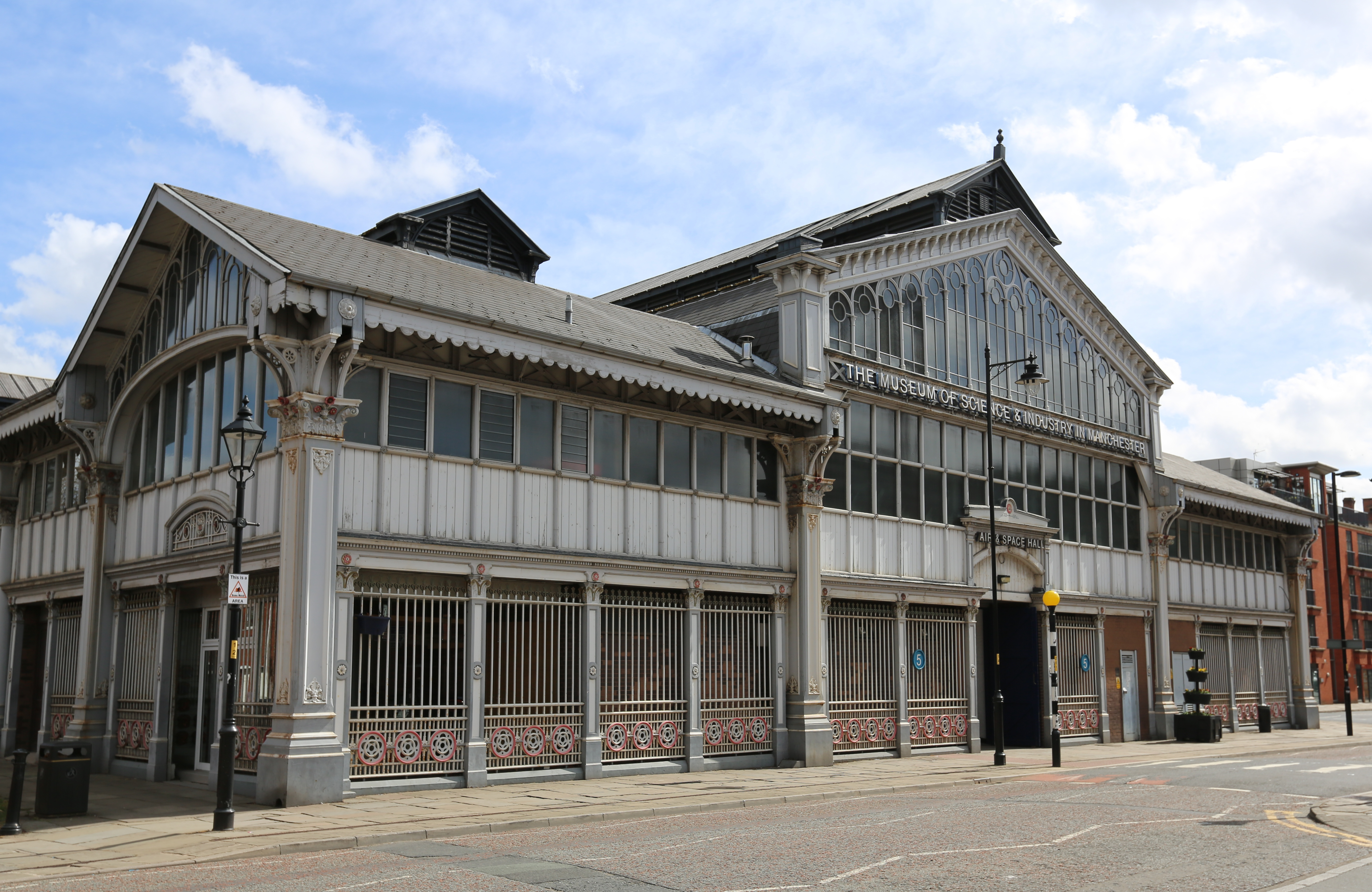 Photo of the Exterior of the Museum of Science and Industry (Manchester)'s Air and Space Hall